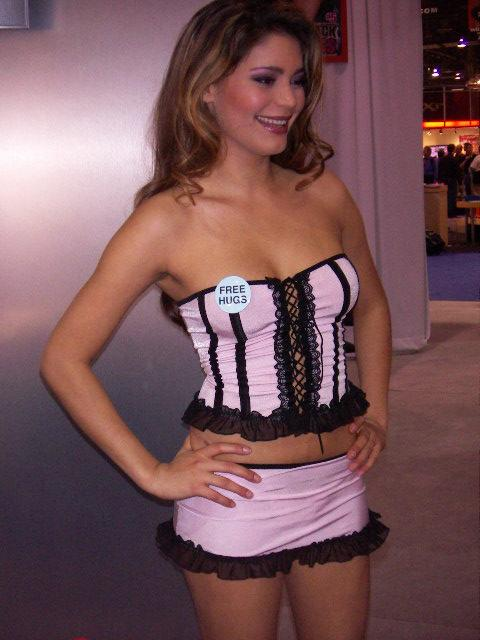 Paolo Rey at AVN Adult Entertainment Expo 2005 on Jan 5, 2005